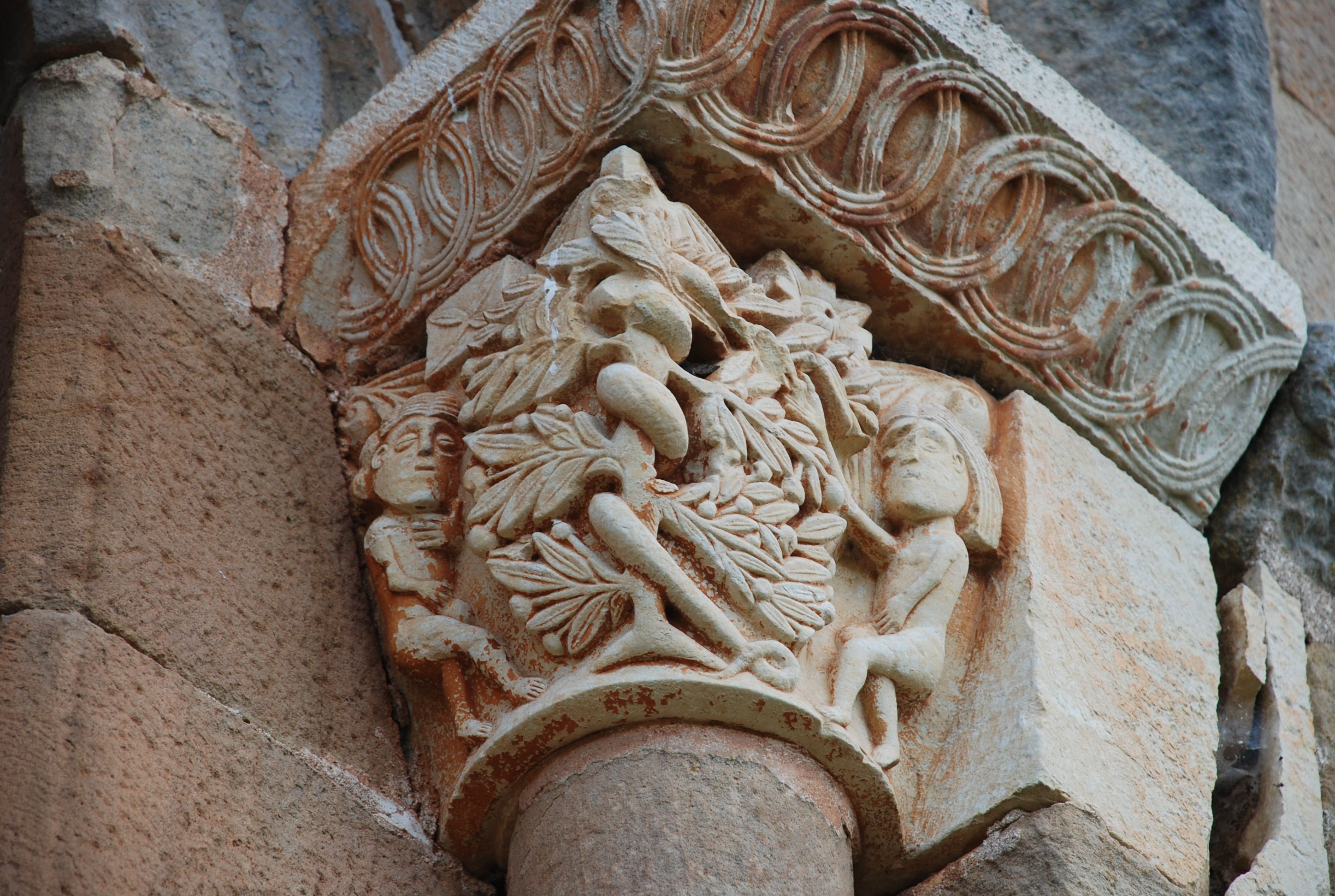 Adam and Eve capital at Chapel of Santa Eulalia in the Barrio de Santa María of Aguilar de Campoo (Palencia, Castile and León). Old Parish Church of the medieval outback of the same name that the building is dedicated. It was declared A historic-artistic monument in 1966. It is one of the jewels of the Romanesque in province of Palencia. Whole, harmonic and small shapes and defines the Romanesque palentine North mountain. Its plant consists of a single nave closed in semicircular apse. Its cover closes to the North, not usual in these buildings since the coldest wind coming from that direction.